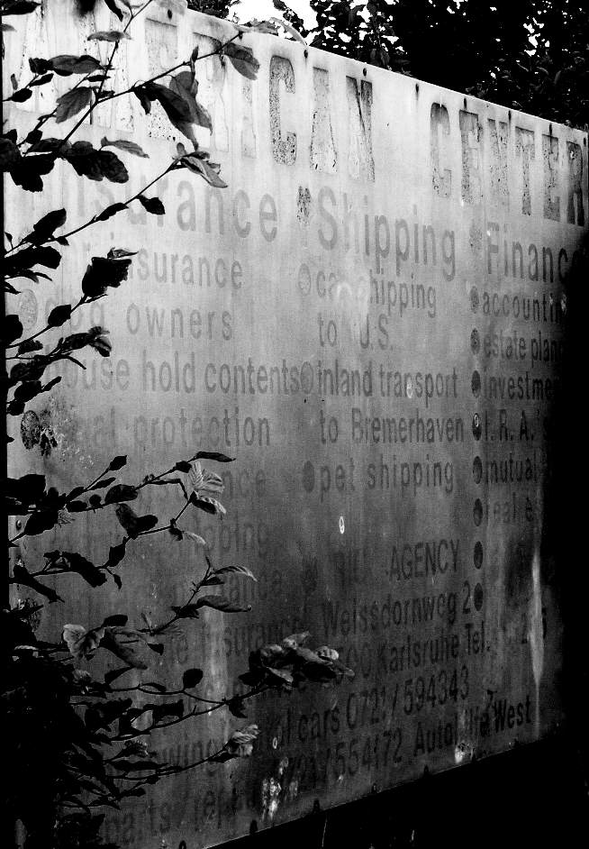 Advertising for services for American soldiers in Europe